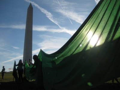 Marching the Iranian Green Freedom Scroll across the National Mall in Washington, D.C.